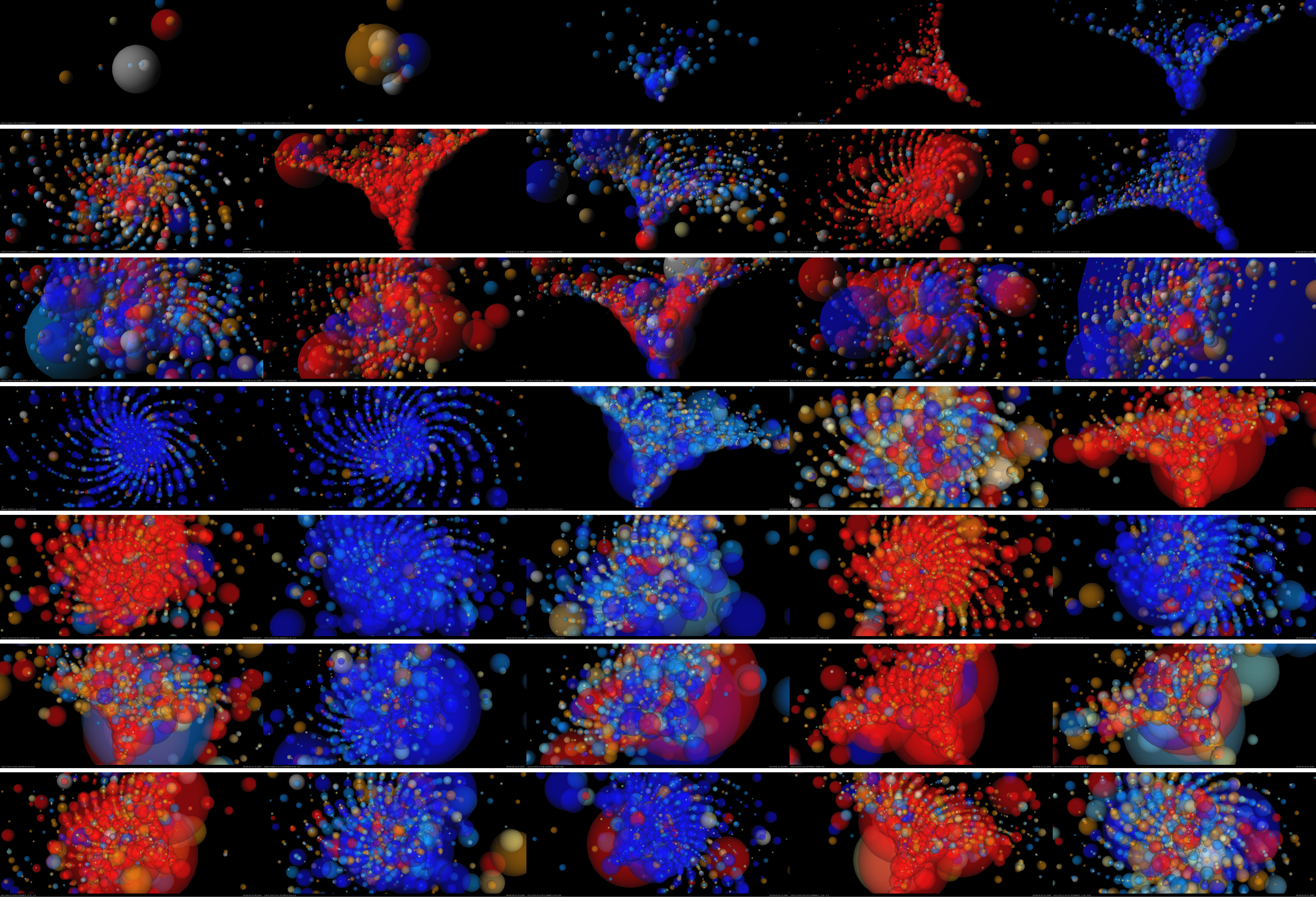 Screen stills of data visualization artwork Ideal Limit, part of the Emporium Spirit series